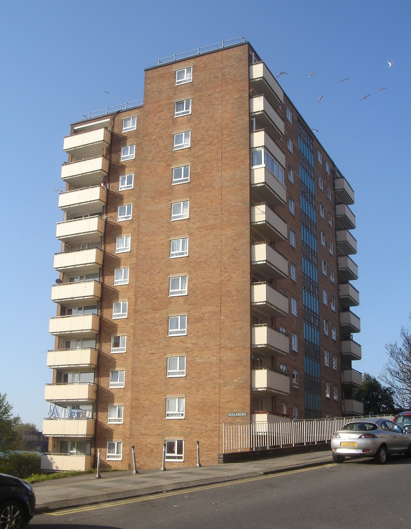 Ecclesden, Ashton Rise, in the Carlton Hill area of the city of Brighton and Hove, England. Built in the early 1960s during slum clearance and redevelopment in this inner-city area. It is one of seven 11-storey blocks of flats in this area.